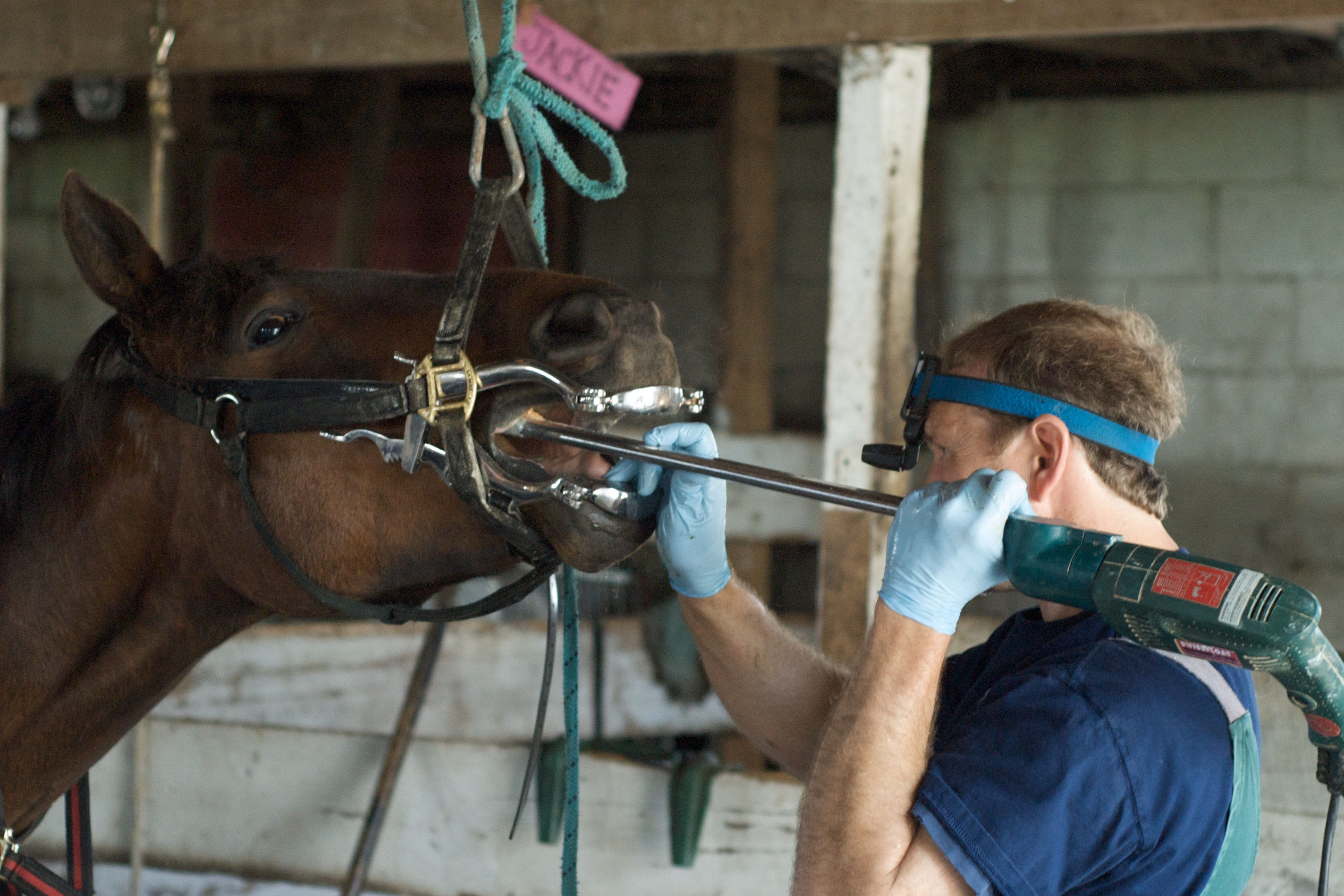 Dr. Froenig checking out our mare Sioux's teeth after a round of grinding with his power float. She's been sedated, which is why Dr. Froenig can stare into her mouth like that while she is holding perfectly still.